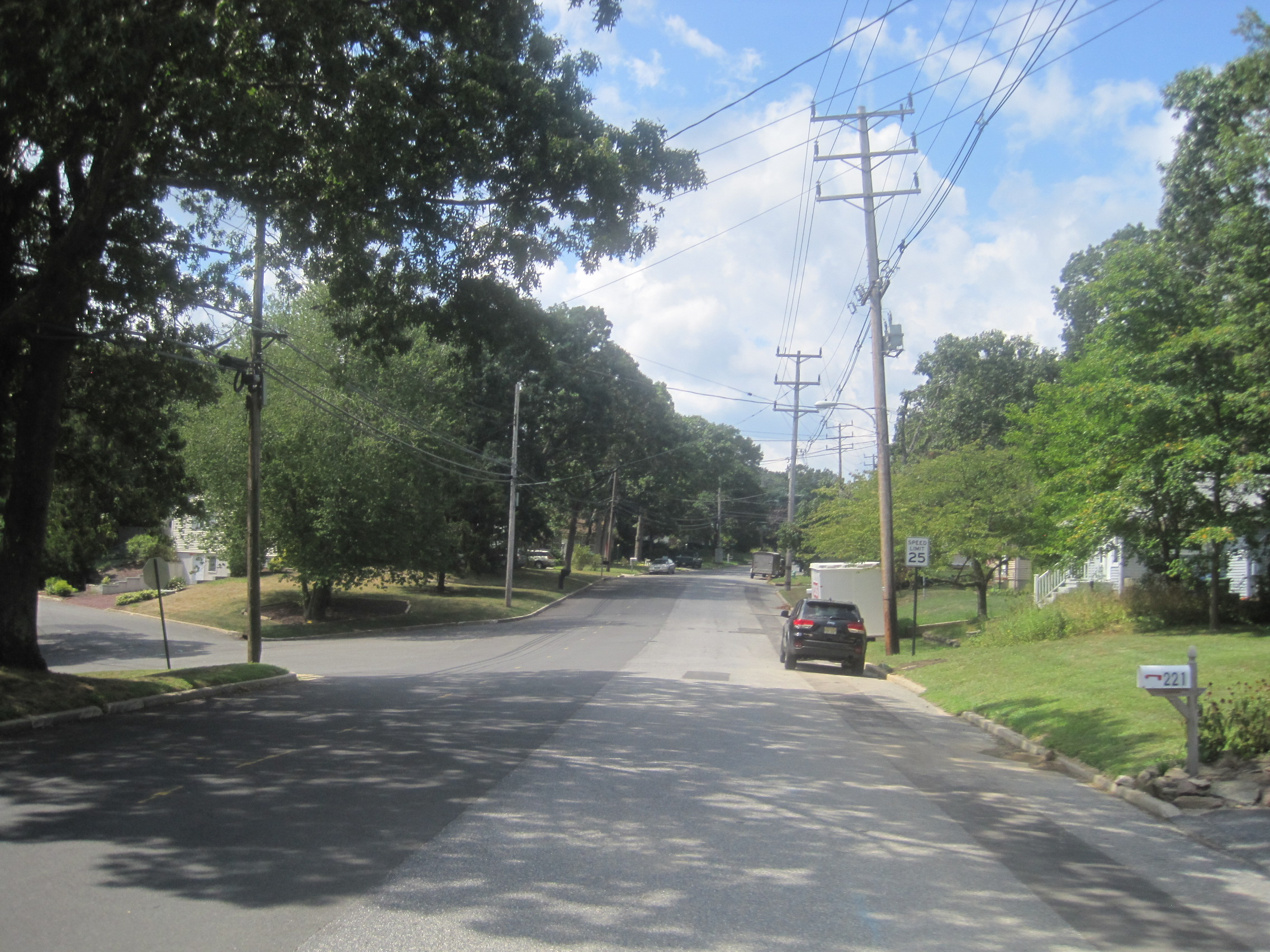 Photo showing Shark River Hills, New Jersey, a census-designated place within Neptune Township. Photo taken along westwood Lakewood Road at Beverly Place / Lorraine Drive